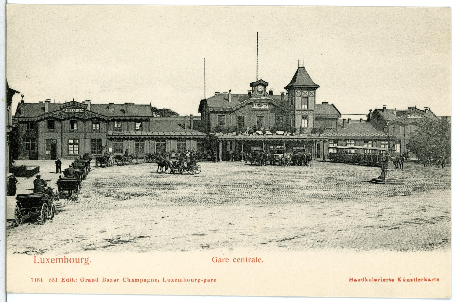 This postcard is from publisher Brück & Sohn in Meißen ( This postcard has a unique number 07184 and is available in a higher resolution at the publisher. This images was uploaded in a cooperation project between Wikipedians and the publisher.